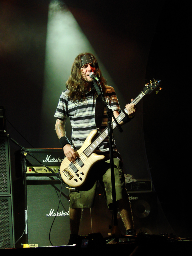 Marcelo Corvalán from Carajo